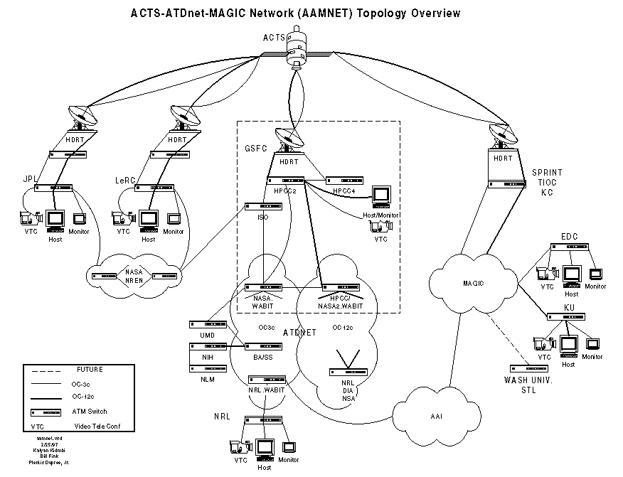 Diagram of the ACTS-ATDnet-MAGIC Network (AAMNET) Topology Overview, courtesy NASA, Fiscal Year 1997 Report.